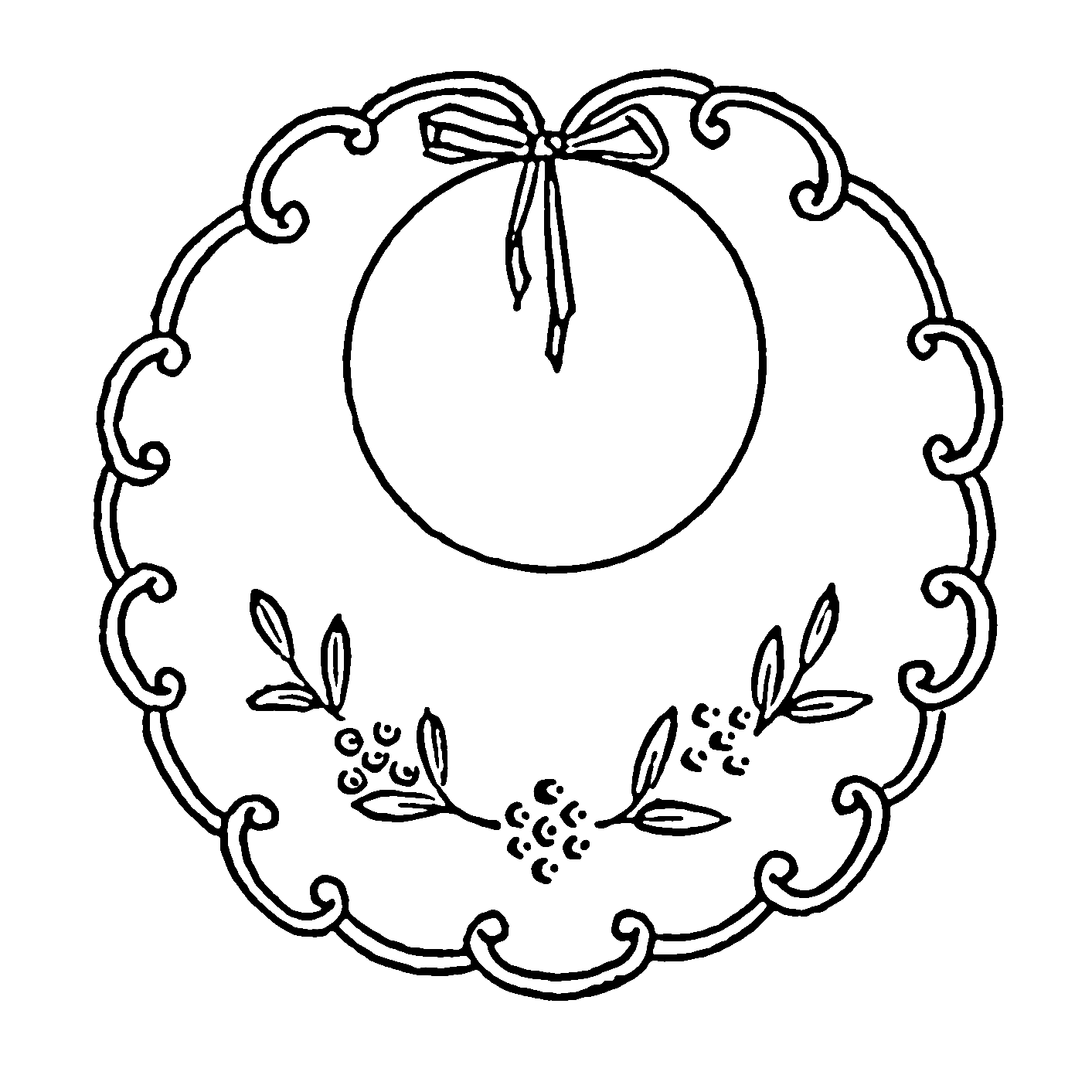 Line art drawing of a child's bib.